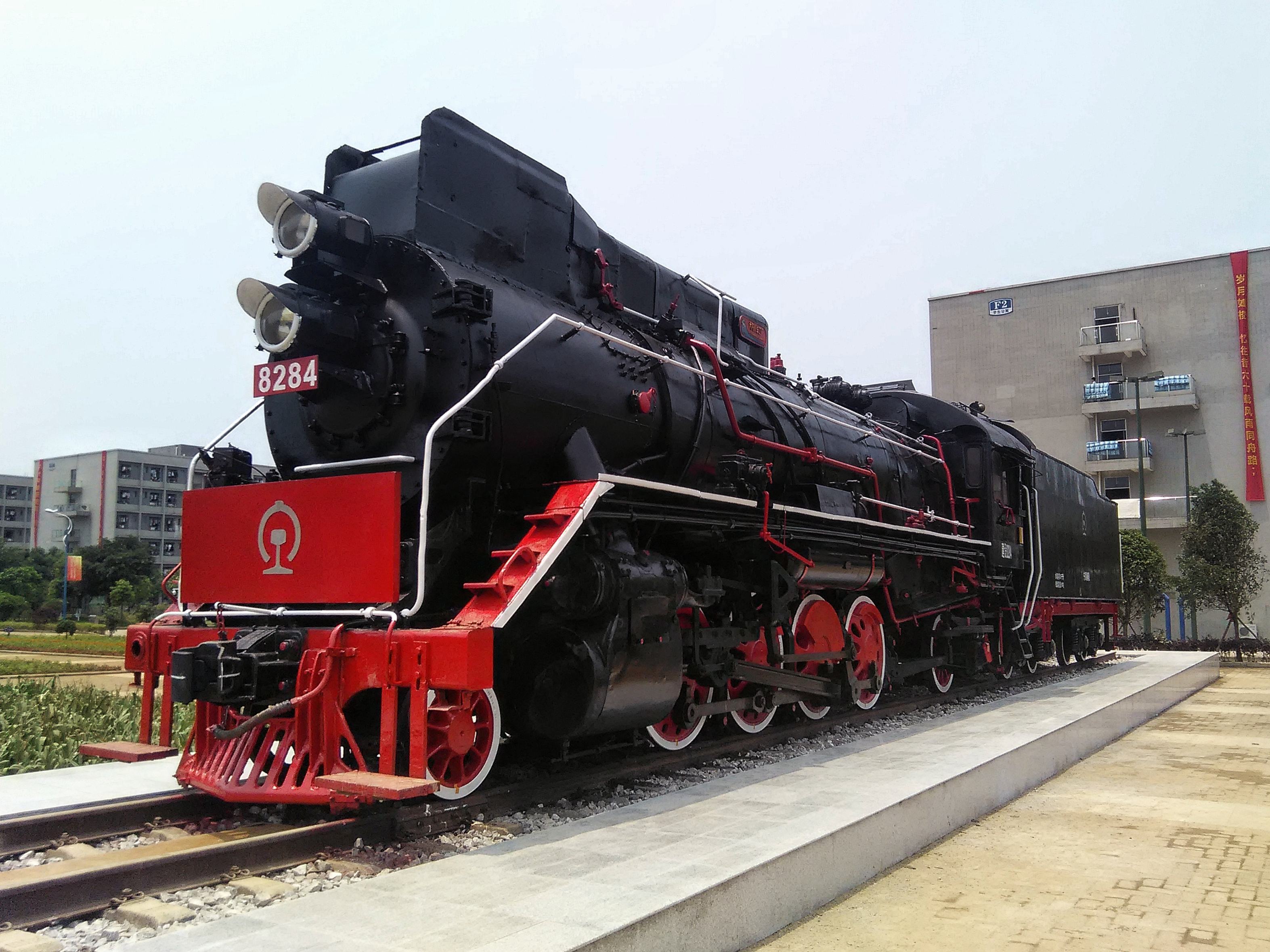 JS-8284 is preserved at Liuzhou Railway Vocational Technical College.